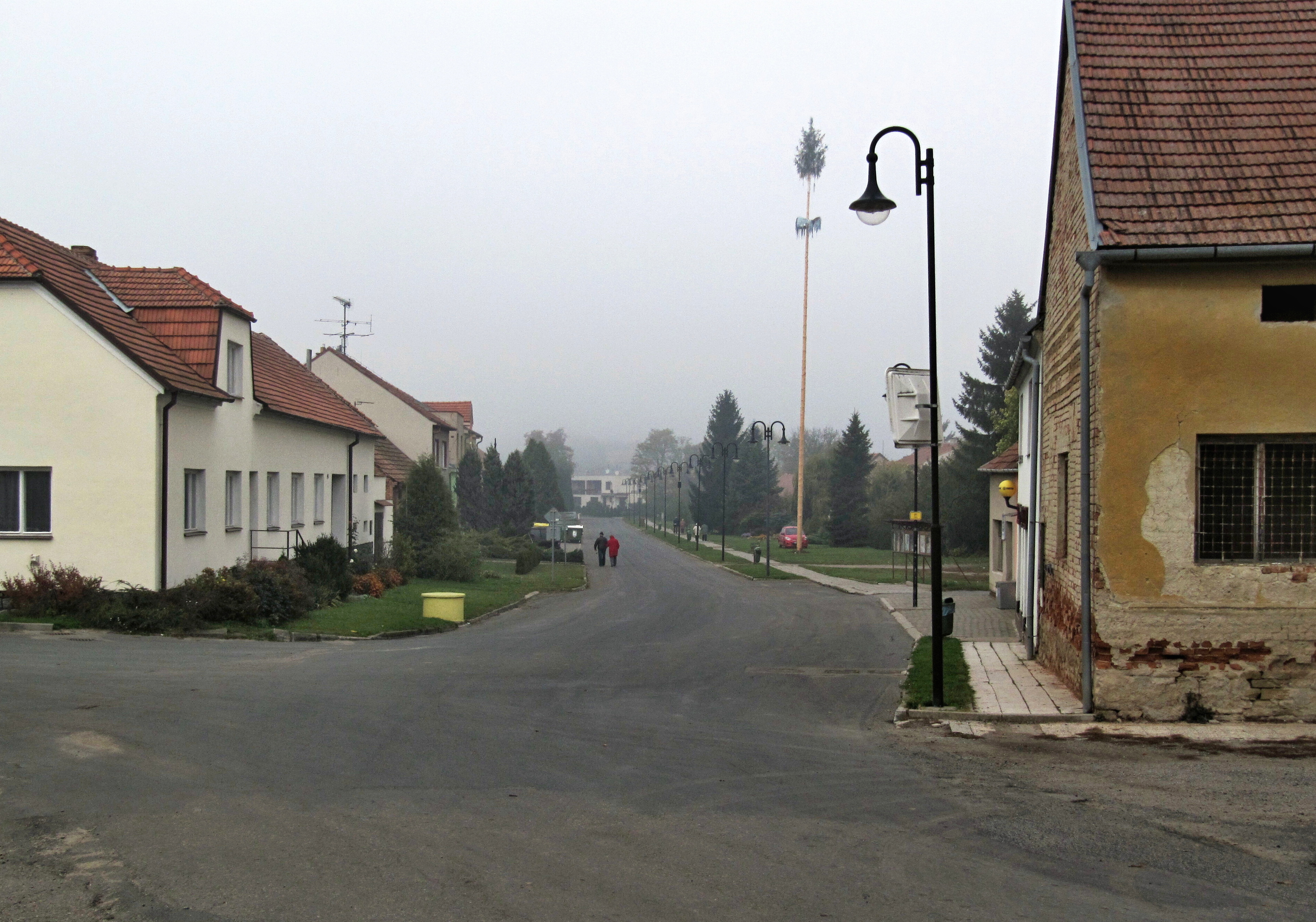 Heršpice in Vyškov District, Czech Republic. Village green.